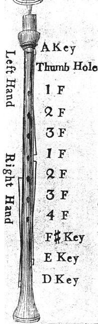 Reproduction of the engraving of John Peacock's new invented chanter with the addition of four keys, c. 1800.